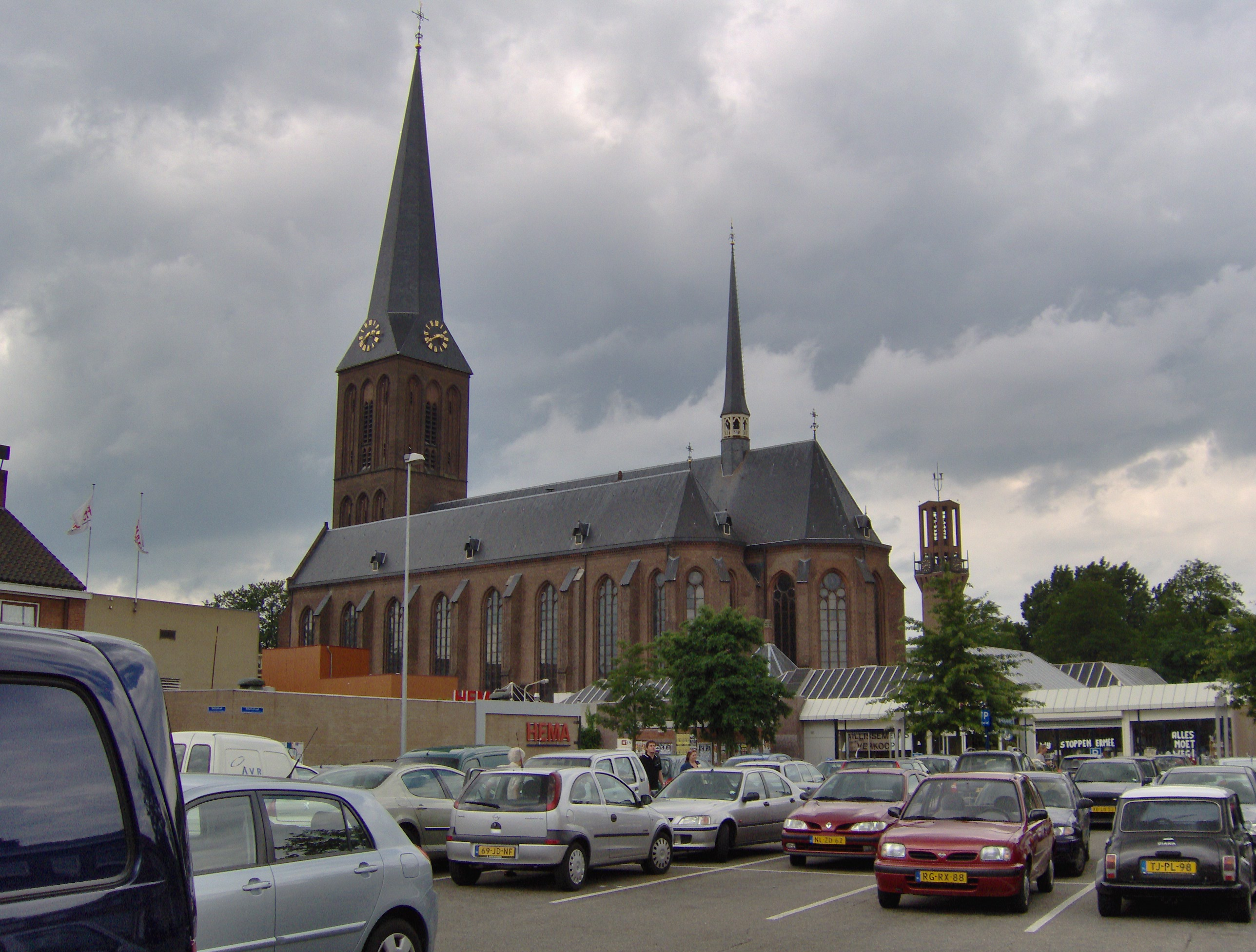 The Lambertusbasiliek (basilica of Saint Lambert) in the city Hengelo, Overijssel, The Netherlands